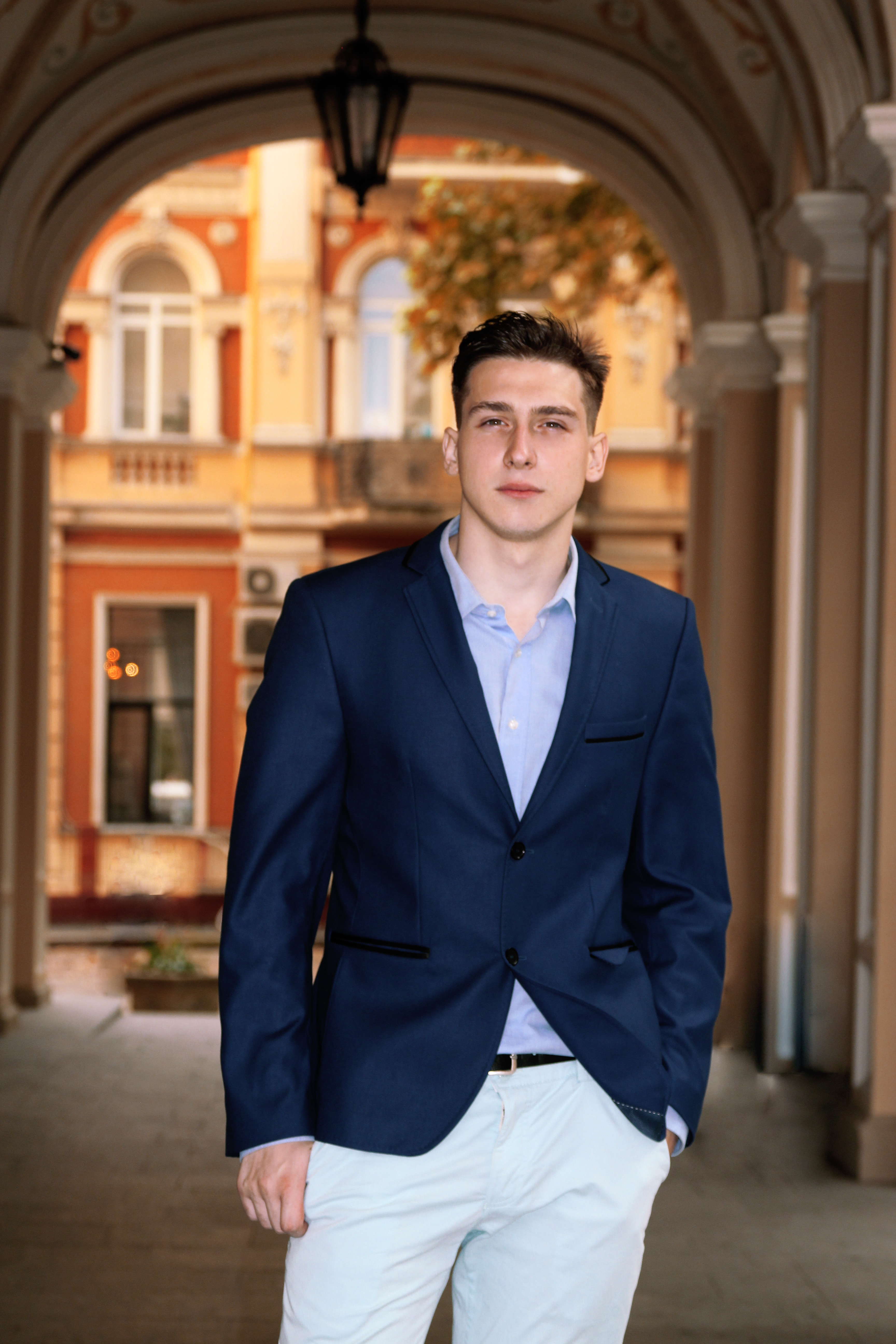 A confident succesful guy